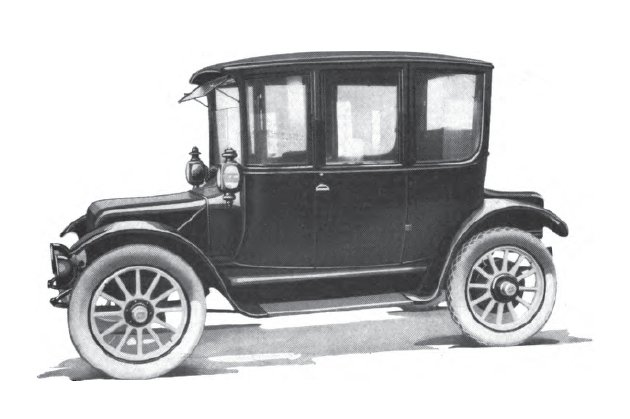 Image was taken from page 173 of the cited book. From Google Books: Title Official handbook of automobiles Authors Association of Licensed Automobile Manufacturers (U.S.), Automobile Board of Trade, Automobile Manufacturers Association Published 1922 Original from the University of Michigan Digitized Jul 14, 2005